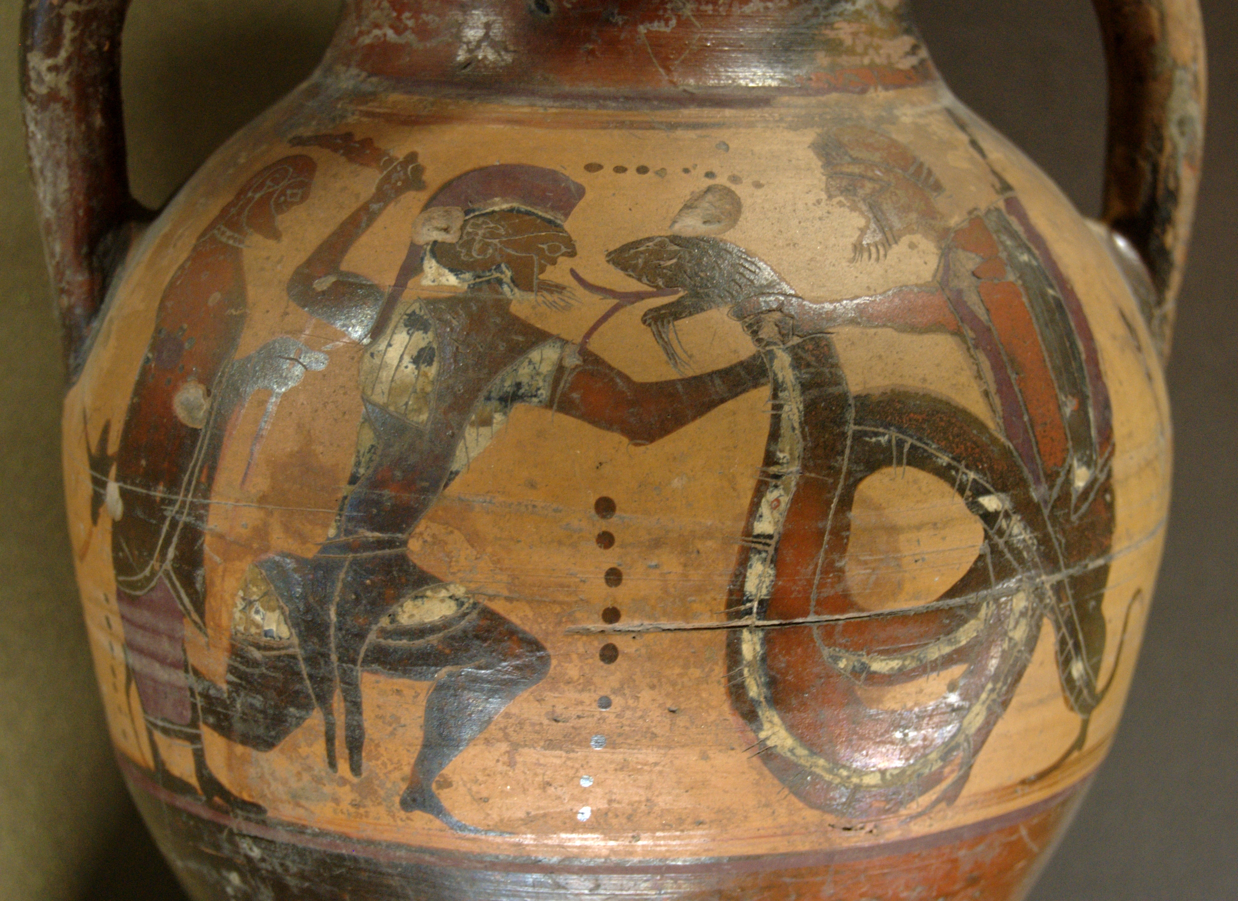 Cadmus fighting the dragon. Side A of a black-figured amphora from Euboea, ca. 560–550 BC.